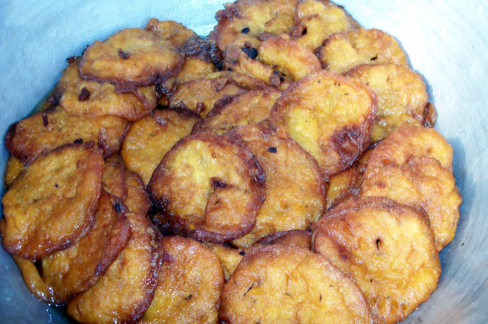 Malapua